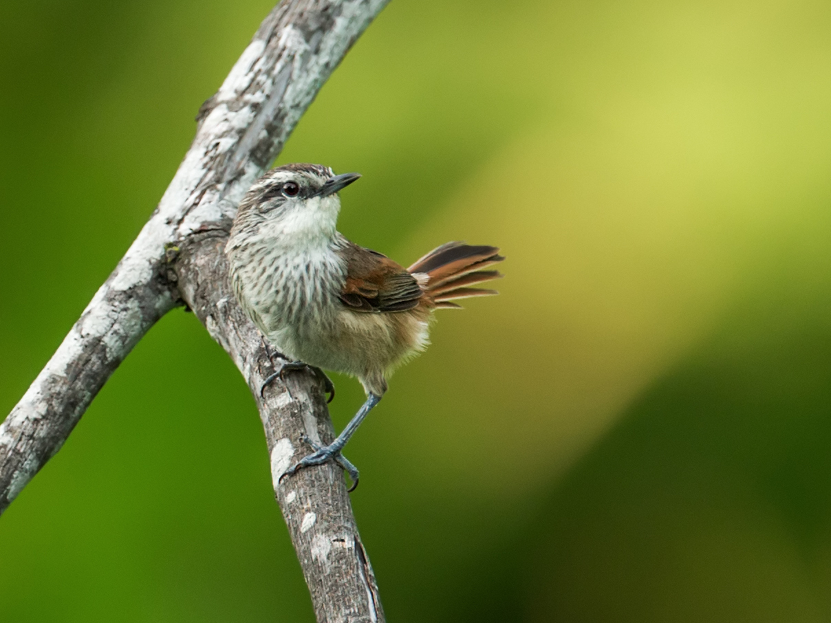 Necklaced Spinetail (nominate ssp.) from El Tambo, Santa Elena, Ecuador.